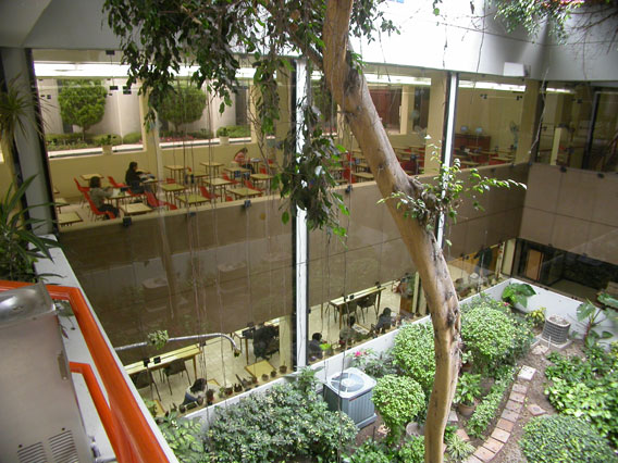 Jardin y sala de estudiantes en la Universidad del Pacífico in Lima, Perú. M. Lamberts, 2004.